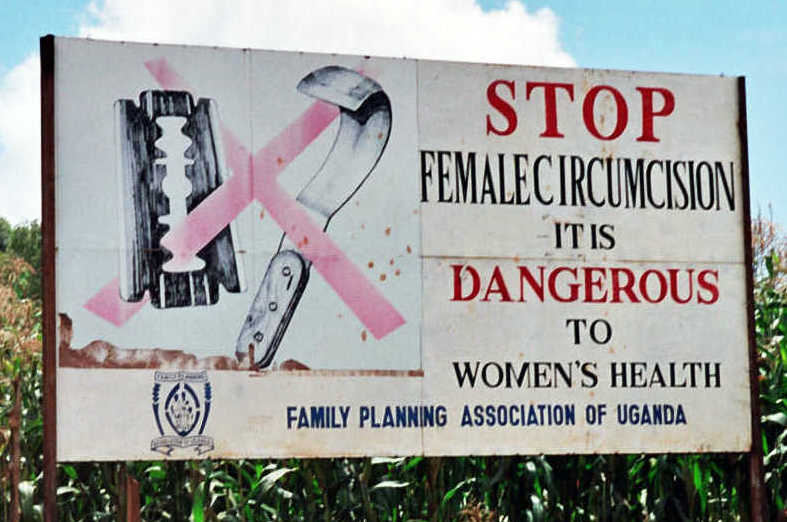 A campaign against female genital mutilation – a road sign near Kapchorwa, Uganda.